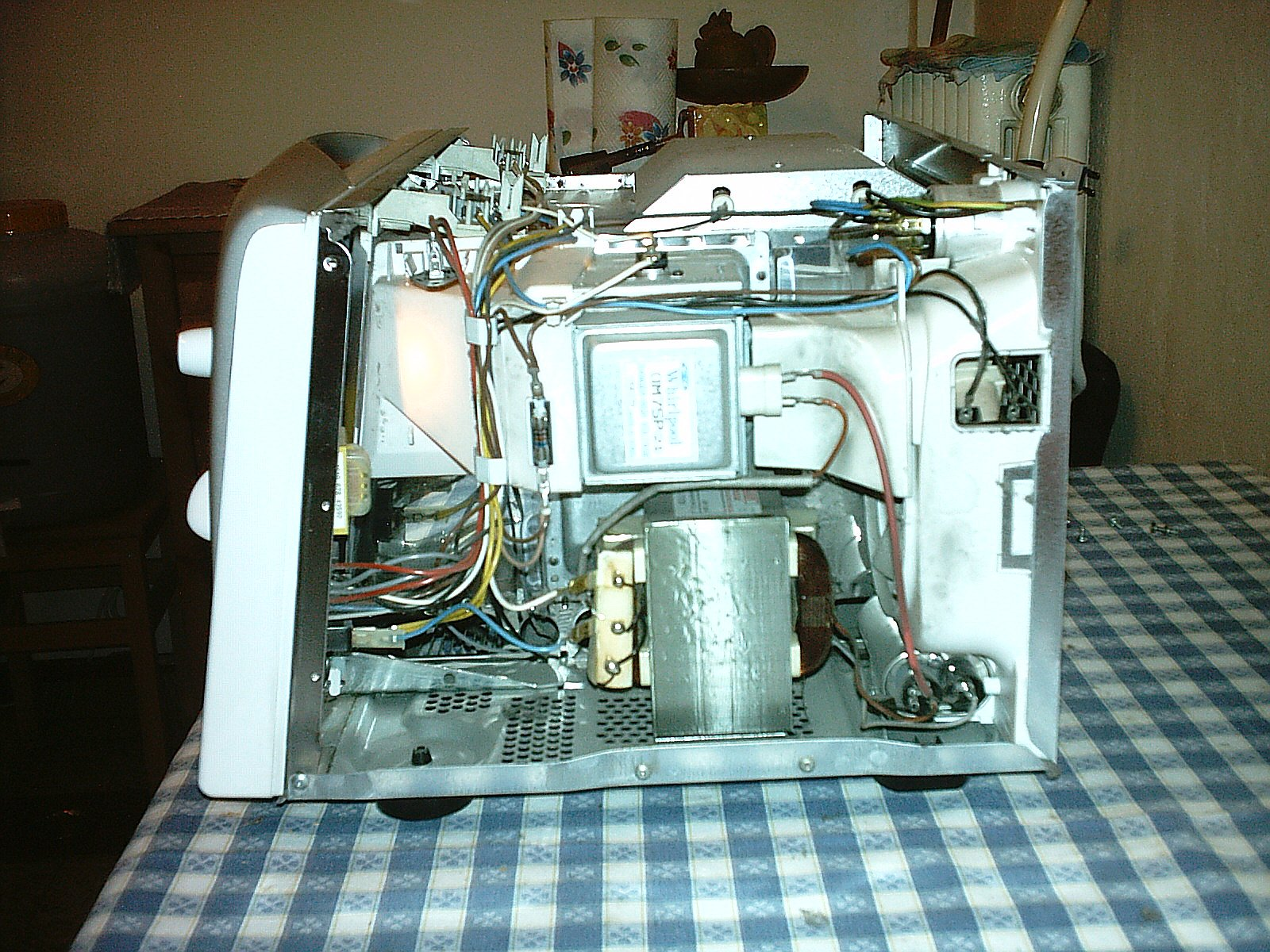 Microwave oven (Whirlpool MT21CT) – cover open, lateral view.